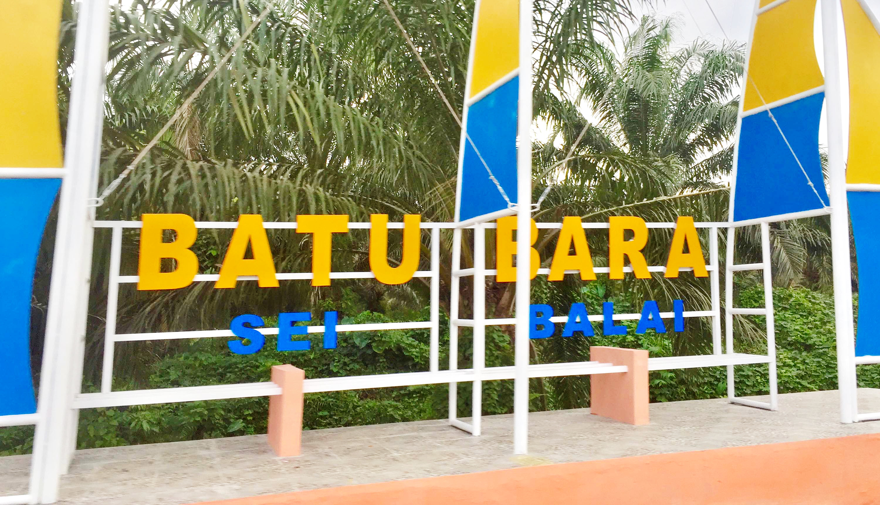 welcome gate to Sei Balai, Batu Bara